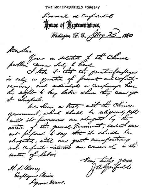 the forged letter that almost cost a president an election